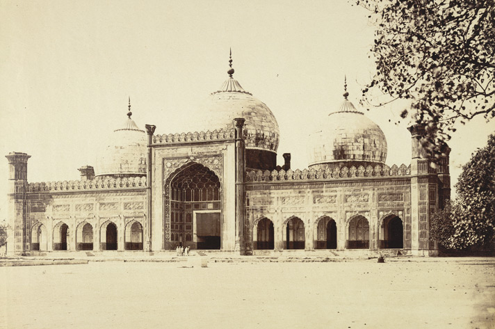 Badshahi Mosque taken by Unknown Photographer in 1870